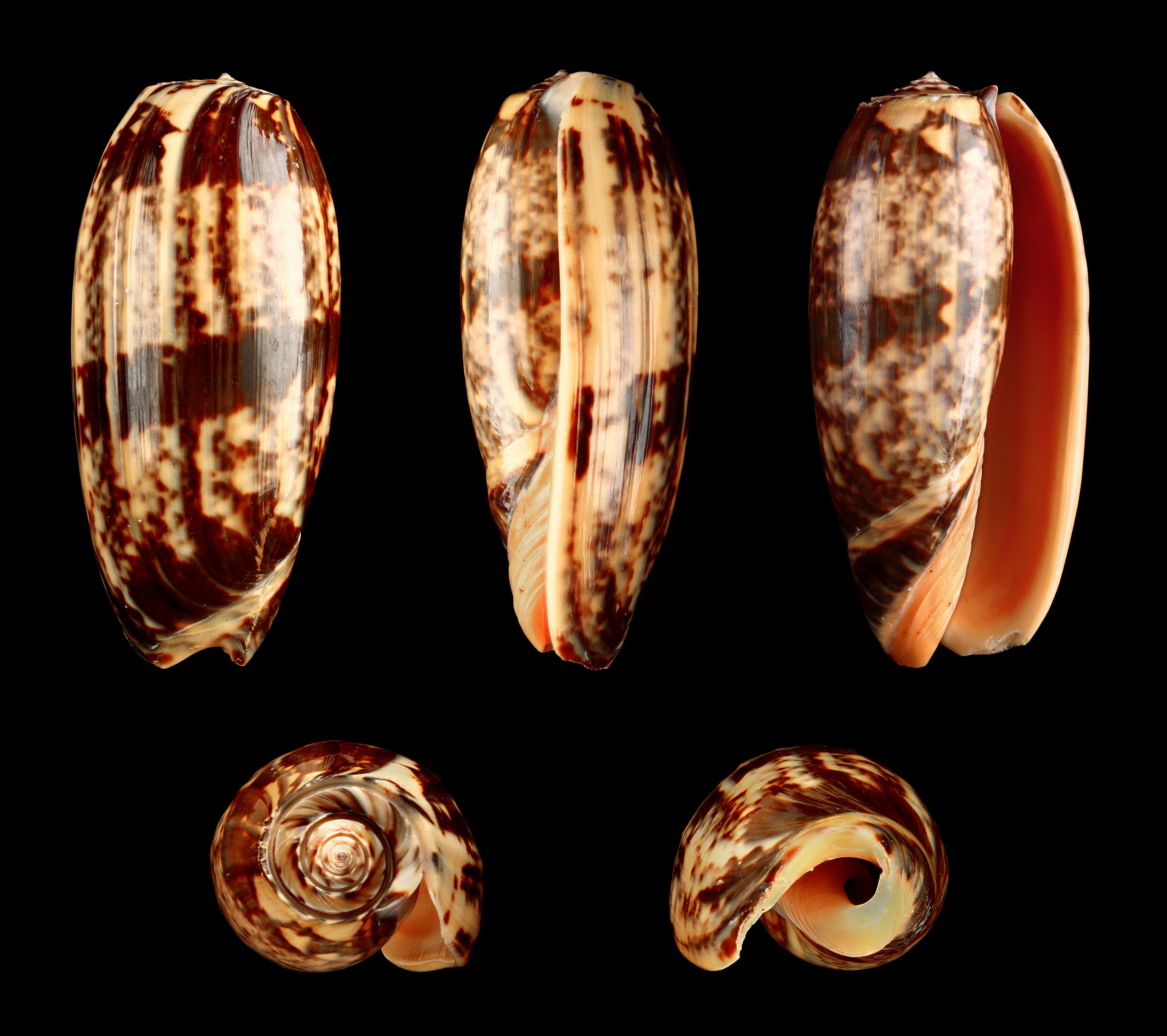 Pacific Common Olive, Length 9.5 cm; Originating from Vietnam; Shell of own collection, therefore not geocoded.